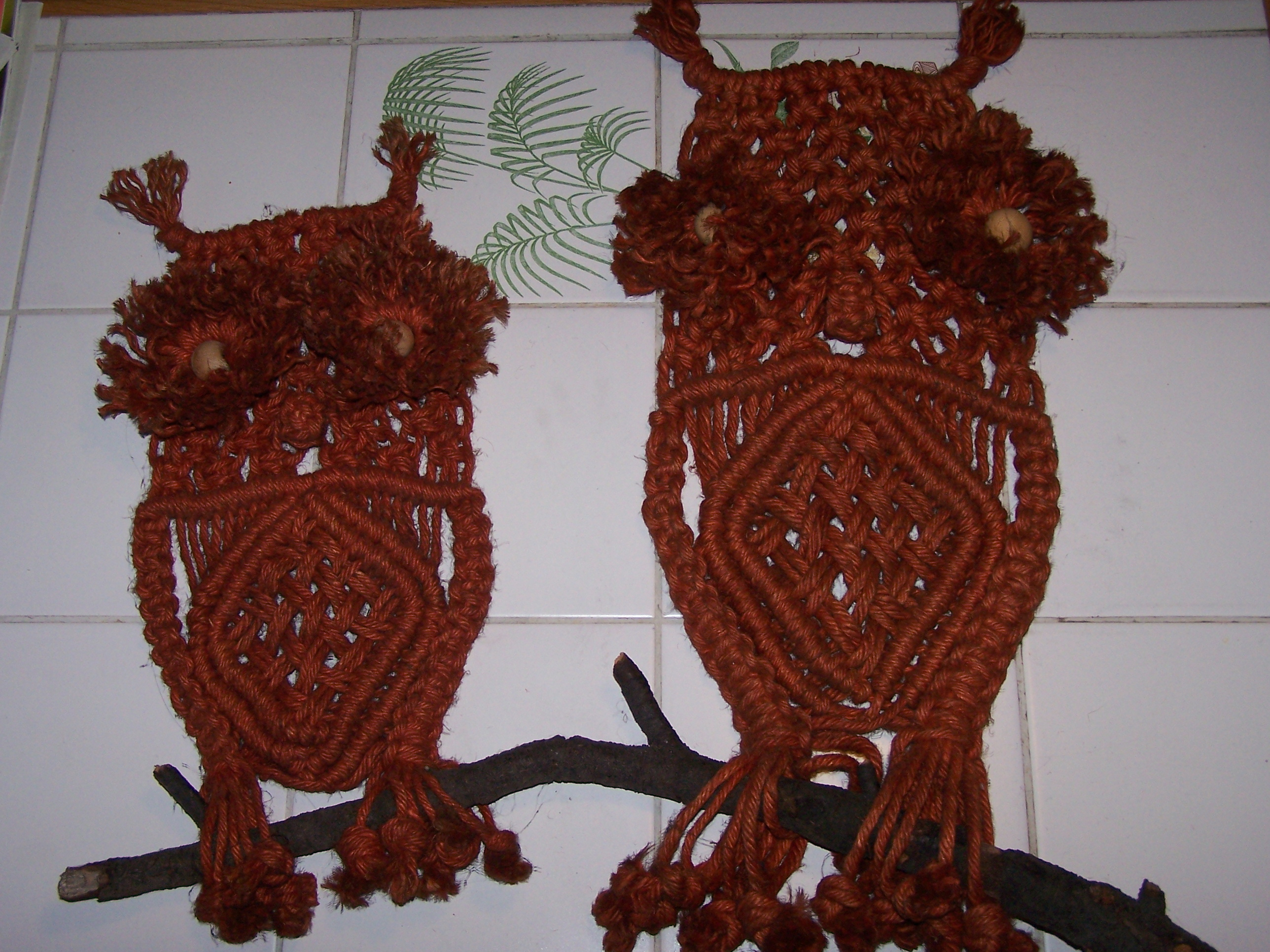 Picture made by myself on august 14th